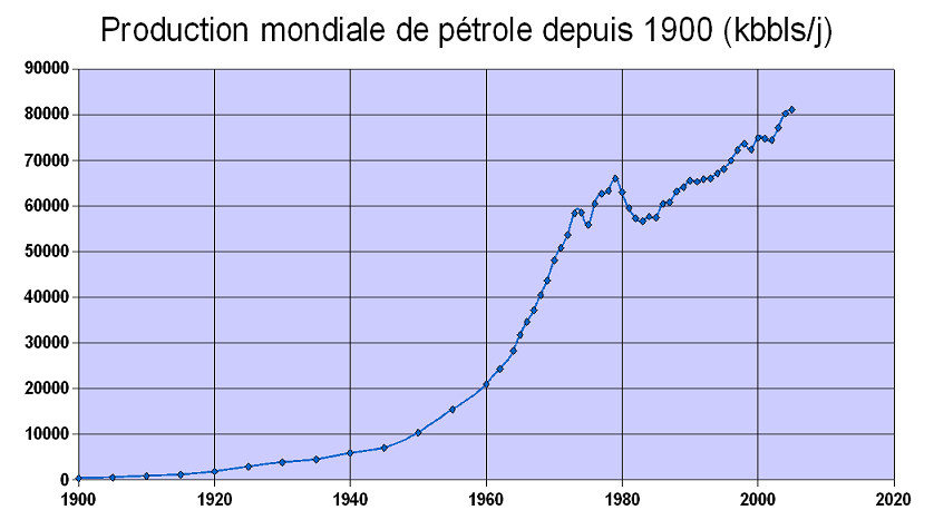 World Oil production from 1900 to 2005. Self-made graph using openoffice. Figures are from BP for 1965-2005, from [1] for 1900-1965.